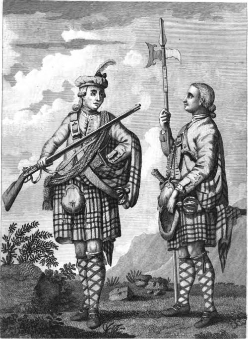 "An Officer & Serjeant [sic] of a Highland Regiment." Illustration (p. 164) depicting soldiers of the 42nd (Highland Watch) Regiment of Foot, c. 1790s.